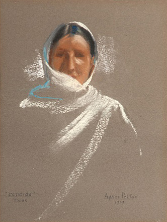 Agnes Pelton, Candido, Taos, 1919